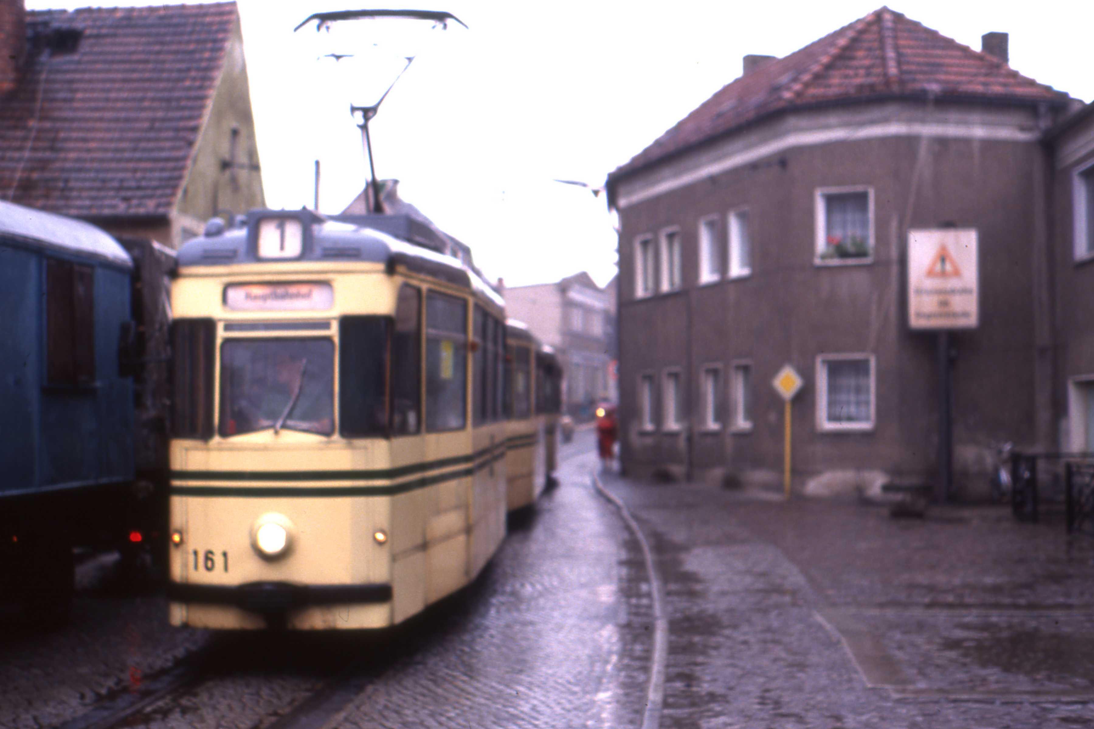 Photographed in torrential rain at about F2 1/30 second on slide film. You get the picture. I think trams no longer reach this outpost of the Brandenburg tram system. The out of focus sign on the grey building implied that it was a bit of a tight squeeze with tramlines filling the whole carriageway at this pinch point. (Strassenbahn in Gegenverkehr???) Route 1 to the Hauptbahnhof. Tatra KT4D trams were in used on several routes but Linie 1 was served by the Gotha style CKD Tatra motor car plus two trailers system at this time. [34III%20T2-62%201967%201988%20ex%20Schwerin%2034%201993%20verschrottet T2D no 161] was new in 1968 and scrapped in 1997. Number 161 was new as 55 in 1967, becoming 16 a year later and finally 161 in 1972